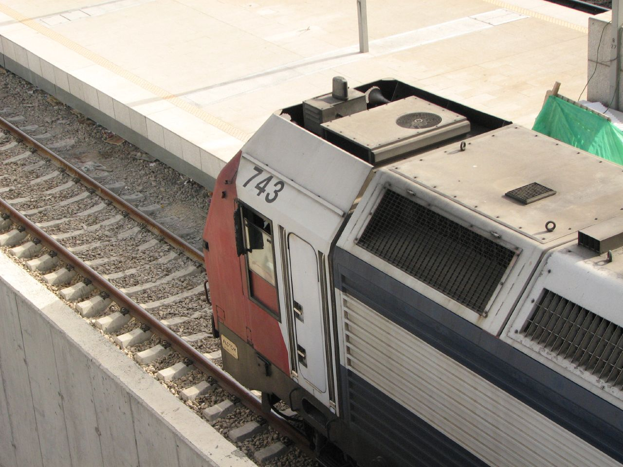 743 Locomotive Waiting to Depart Northbound from Tel-Aviv HaShalom (Azrieli Center) Station Israel Railways